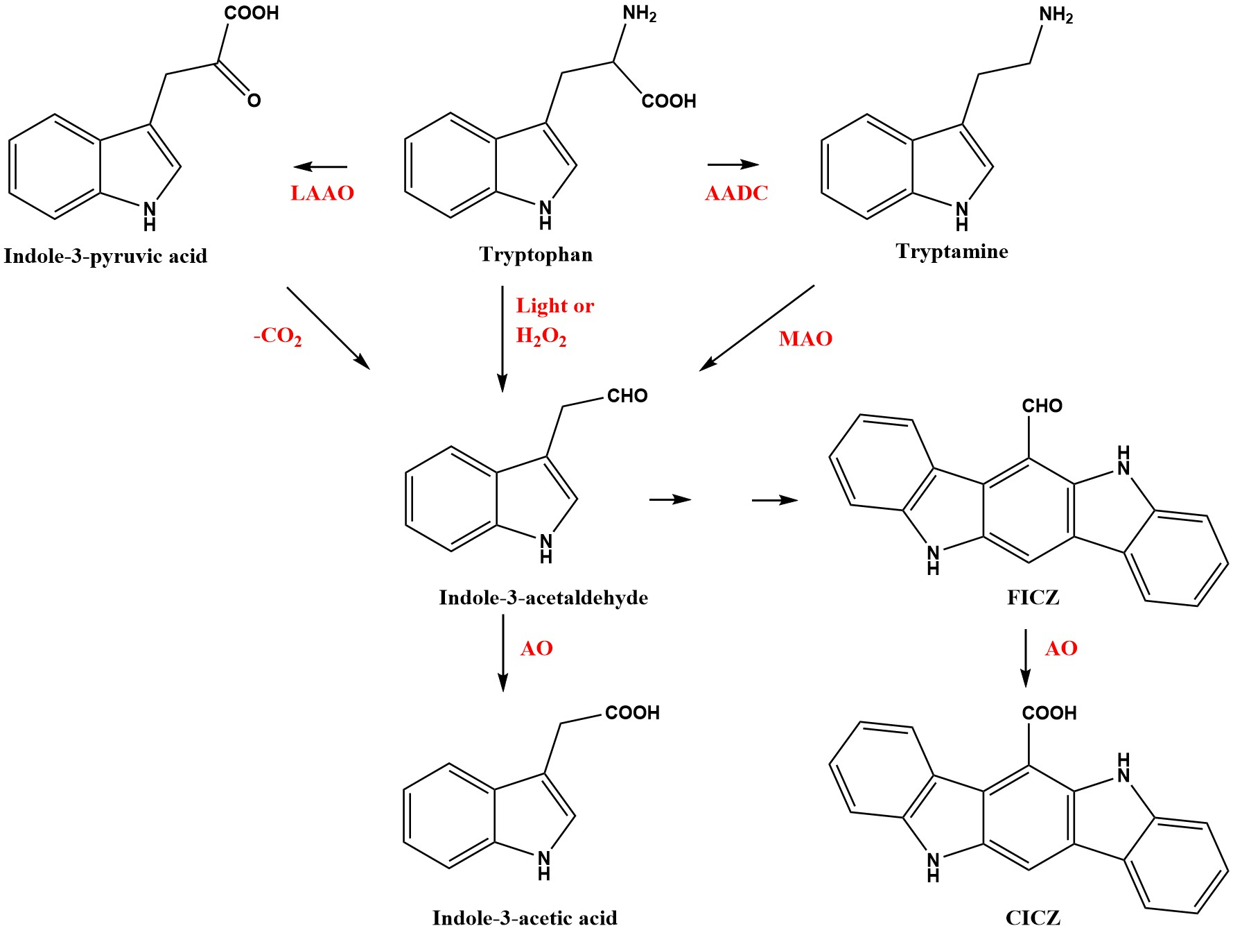 Different known pathways leading from tryptophan to the endogenous high affinity AHR ligand 6-formylindolo[3,2-b]carbazole (FICZ)